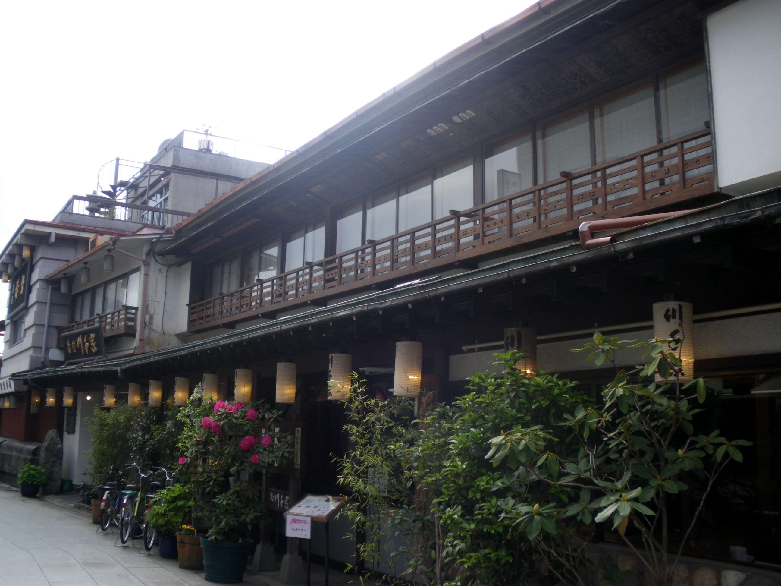 Kawachiya entrance(Shibamata,Katsushika,Tokyo)